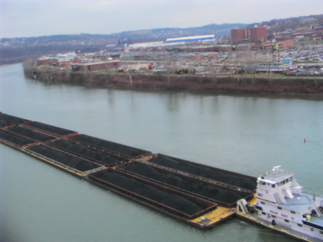 Barge on the Monongahela River, near Pittsburgh. On the shore is The Waterfront shopping center.